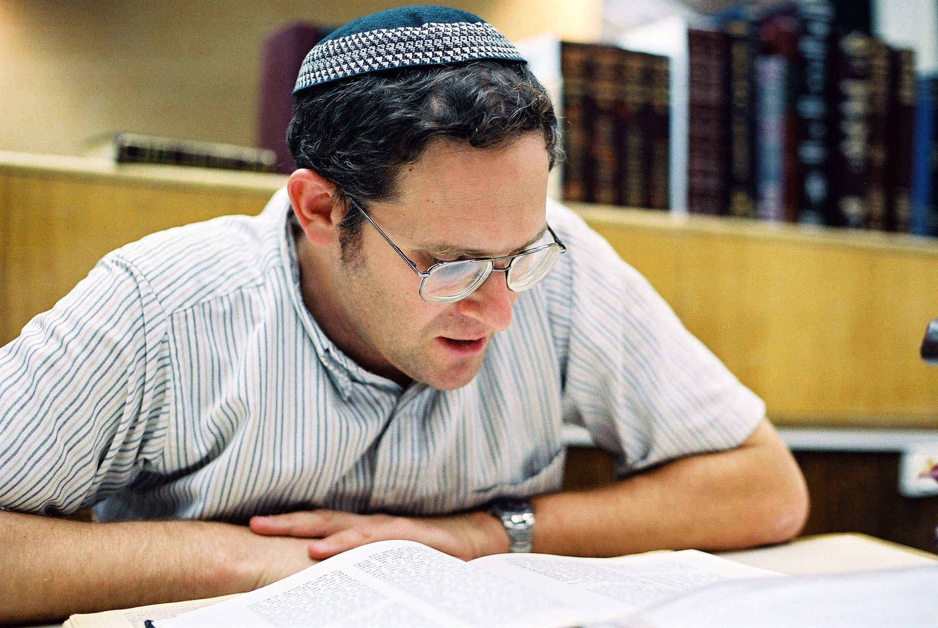 Rabbi Mosheh Lichtenstein, a Rabbi at Yeshivas Har Etzion